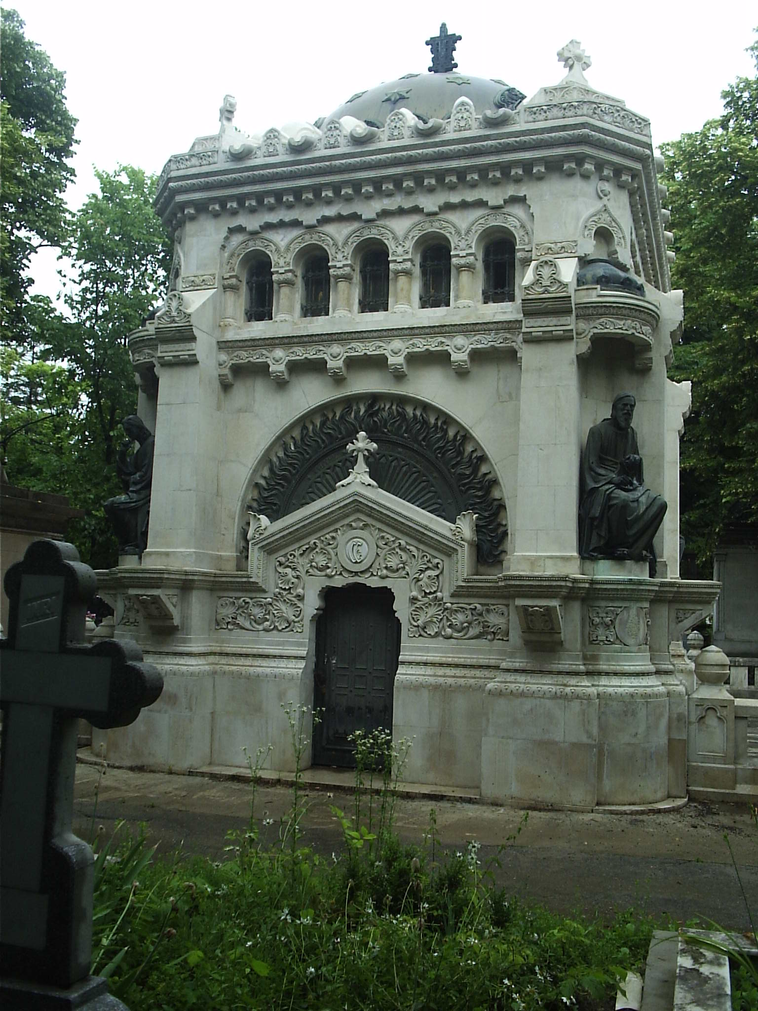 The tomb of Evlogi and Hristo Georgiev brothers in Bucharest.